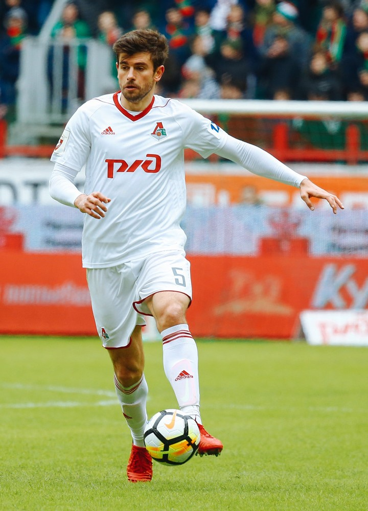 Nemanja Pejcinovic